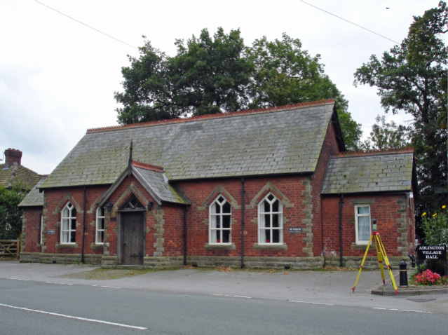 Adlington: the Village Hall on Mill Lane Adlington: Adlington Village Hall on Mill Lane (and the North Cheshire Way). Survey work in progress!